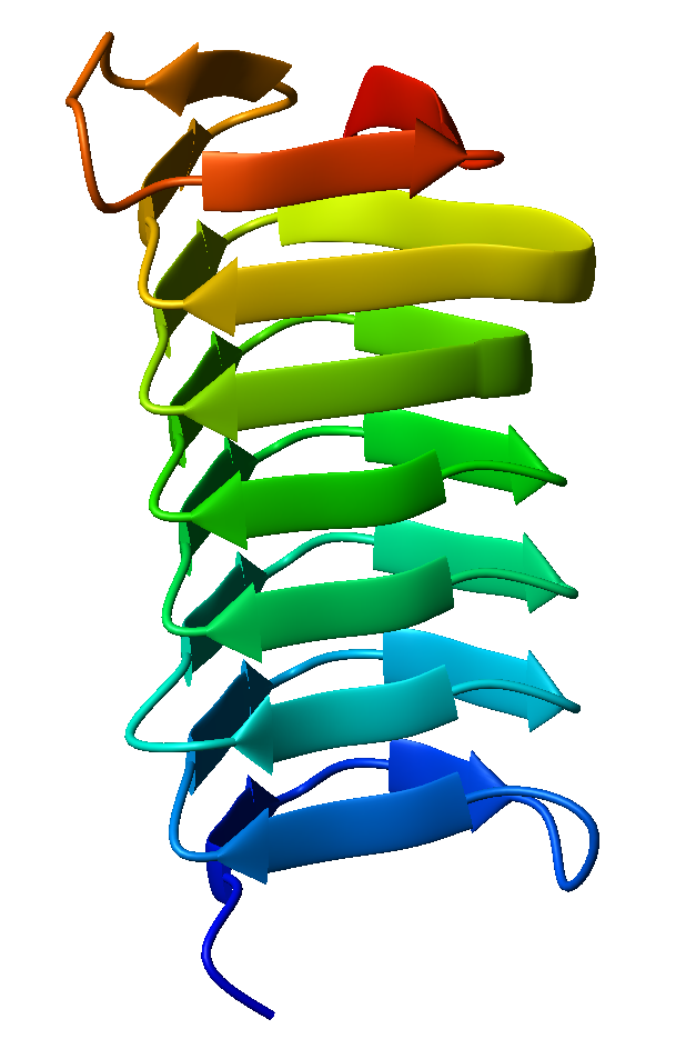 Left-handed beta helix antifreeze protein. Made with MOLMOL.